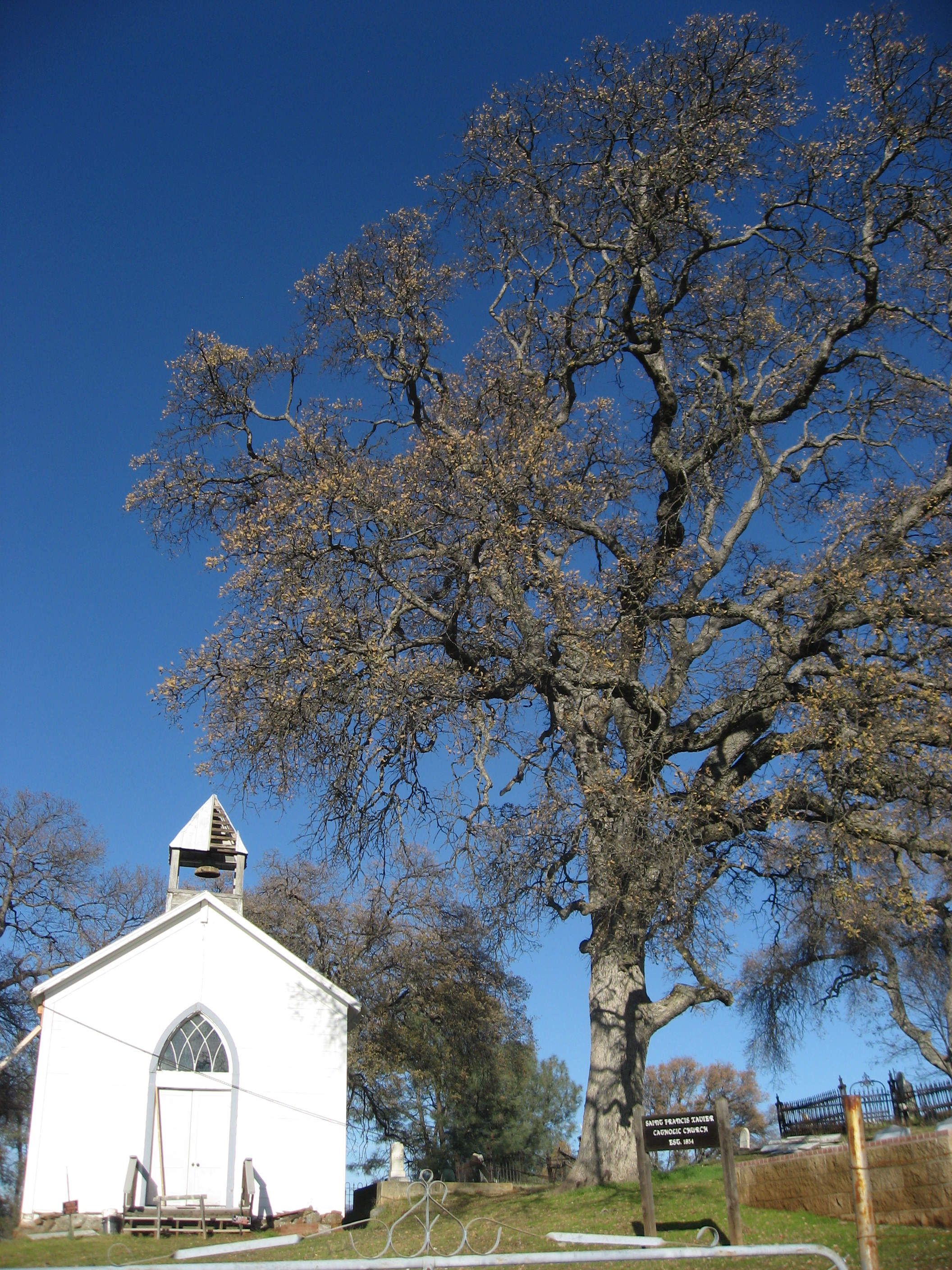 The old Catholic Church at Chinese Camp.